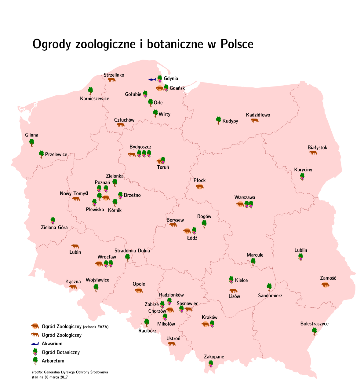 Map of botanical and zoological gardens in Poland